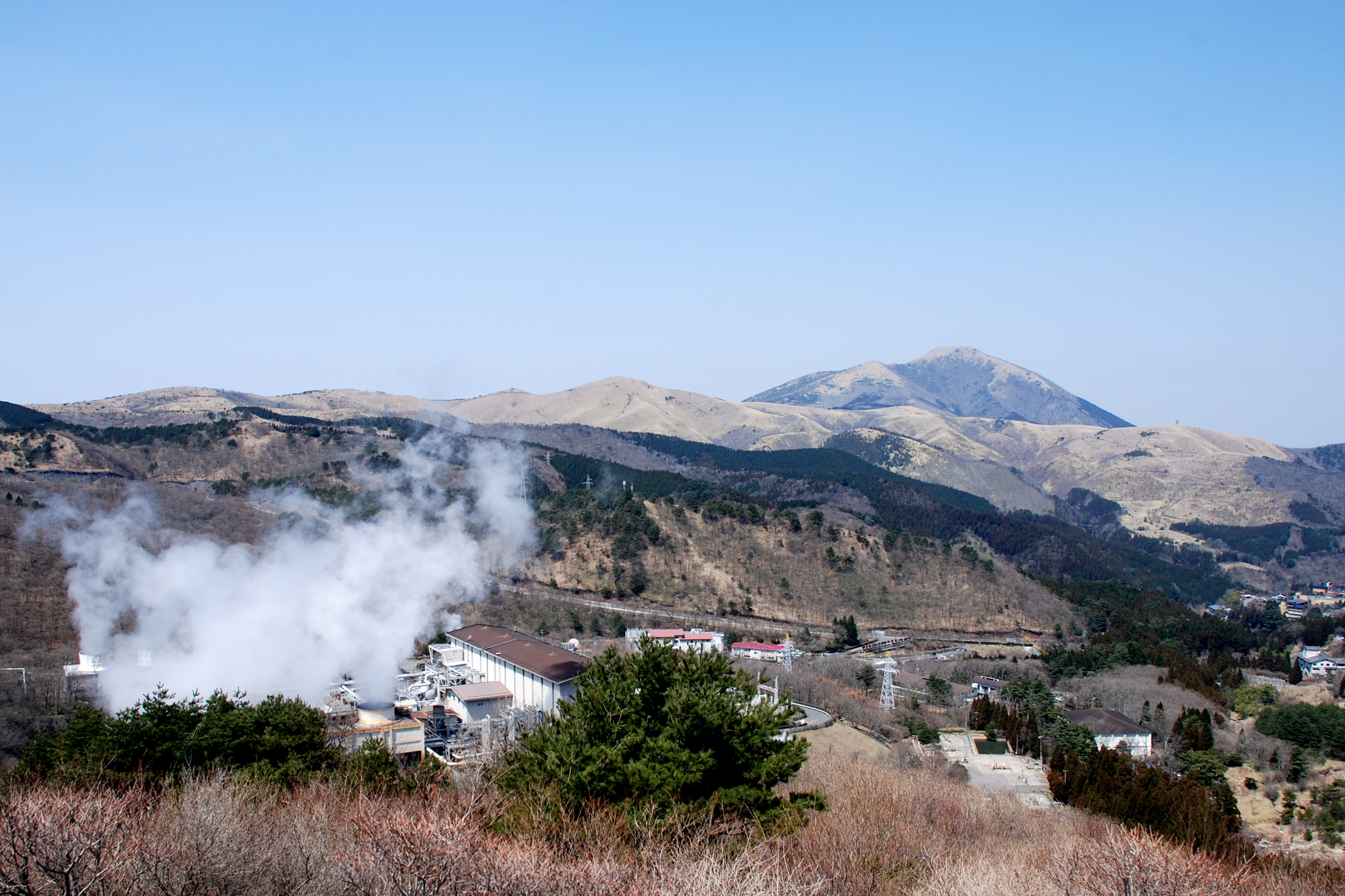 Hatchobaru Geothermal Power Plant Japan